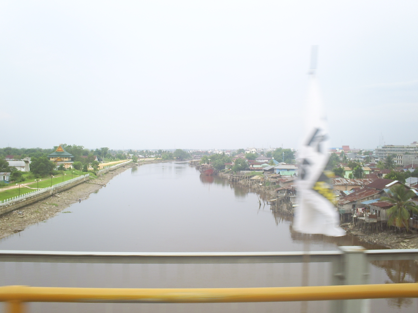 Siak River, Pekanbaru, Riau, Indonesia